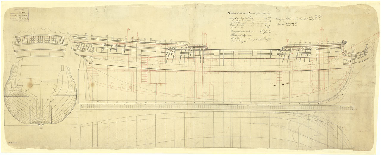 BRILLIANT 1757 lines & profile